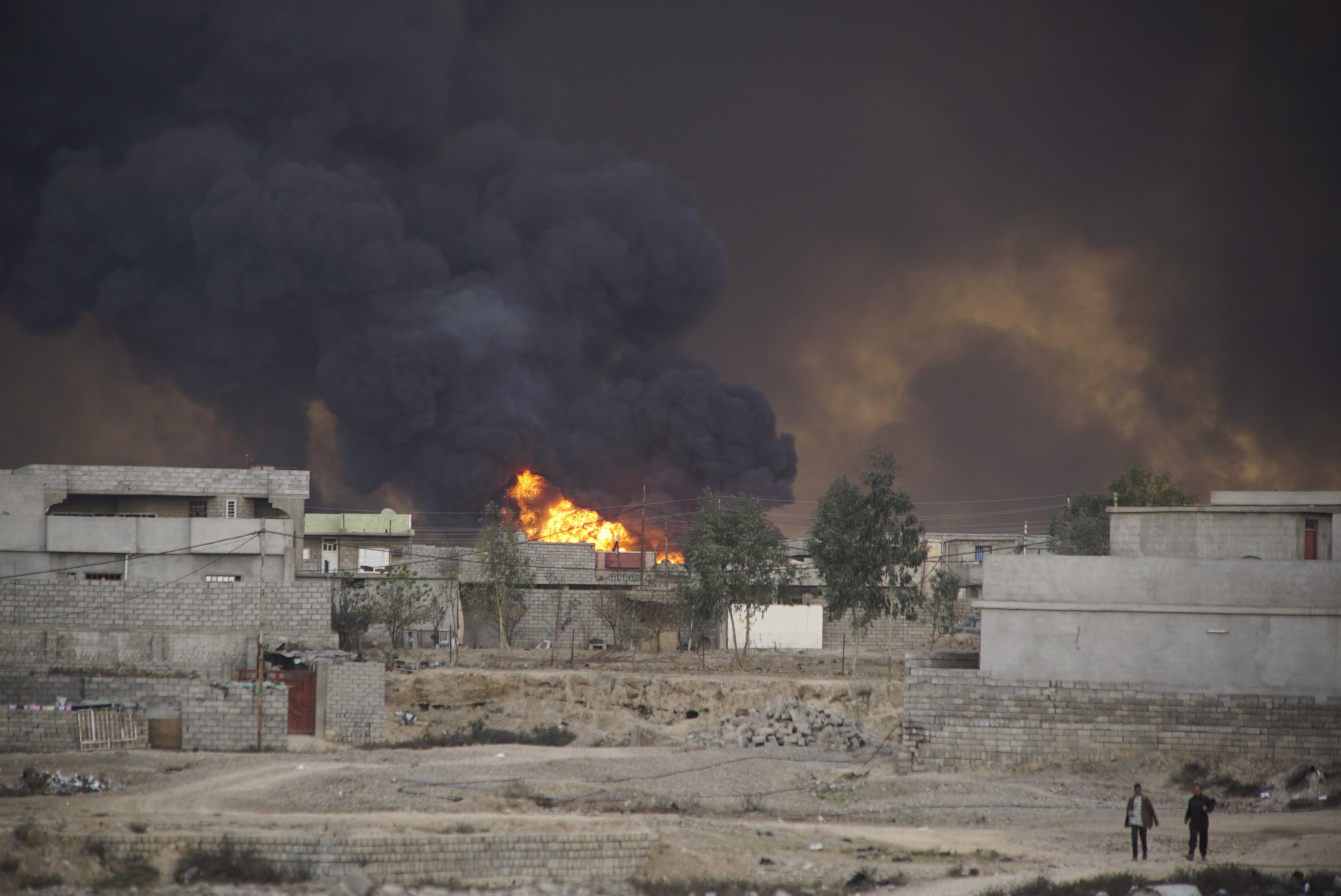 Cityscape of Qayyarah town on fire.The Mosul District, Northern Iraq, Western Asia. 09 November, 2016.